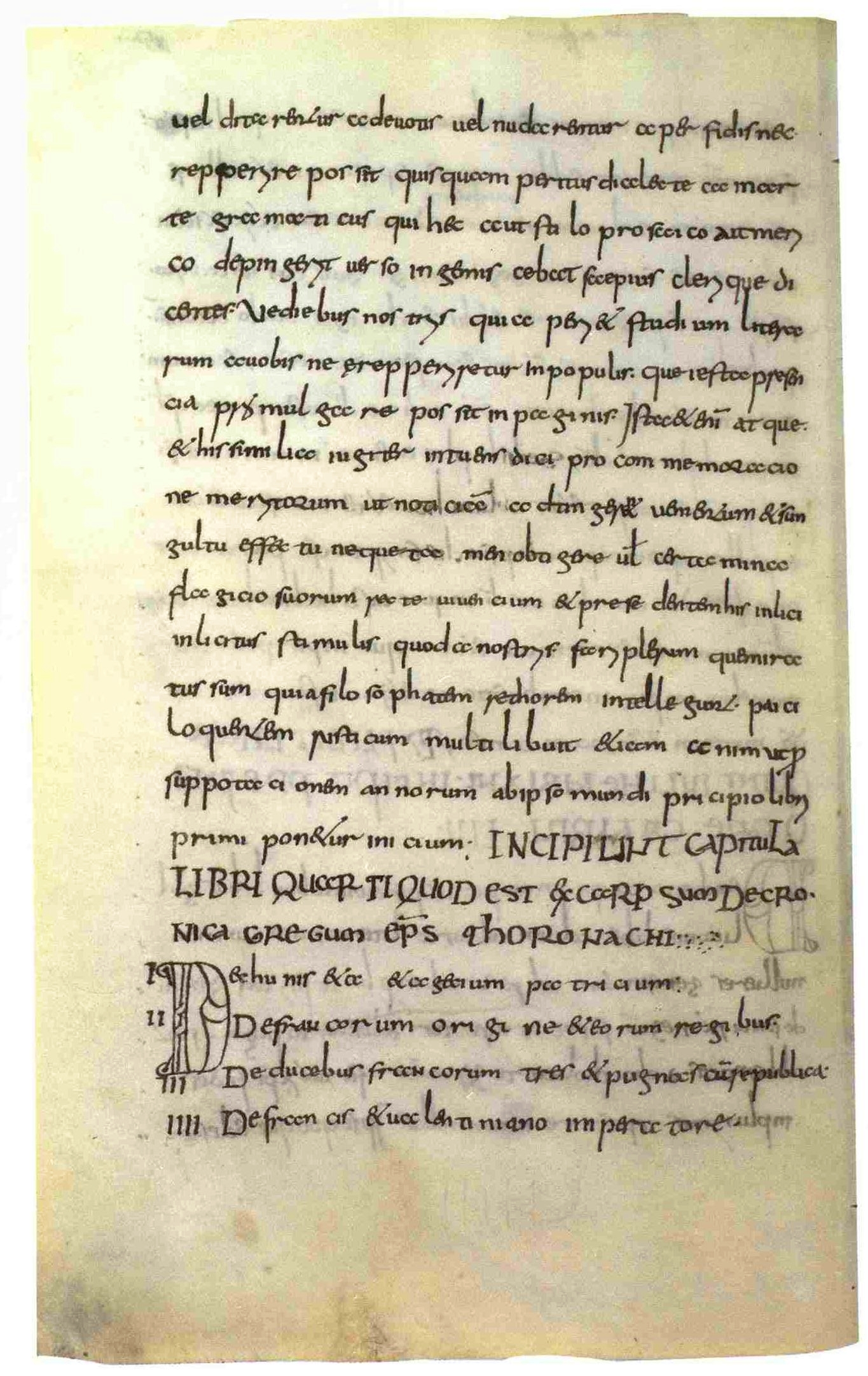 A page of a manuscript of the Chronicle of Fredegar: Vienna, Österreichische Nationalbibliothek, Cod. 482, fol. 61v, from Reichenau.